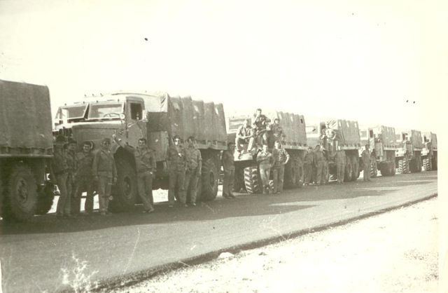 220st AA SAM Regiment servicemen during the roadmarch, from Latakia harbour to the city of Dumeir.